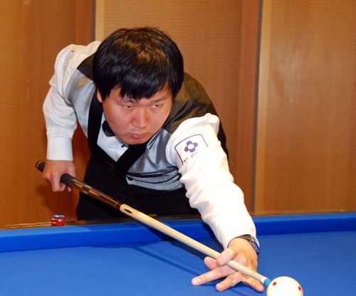 Korean carom billiards player